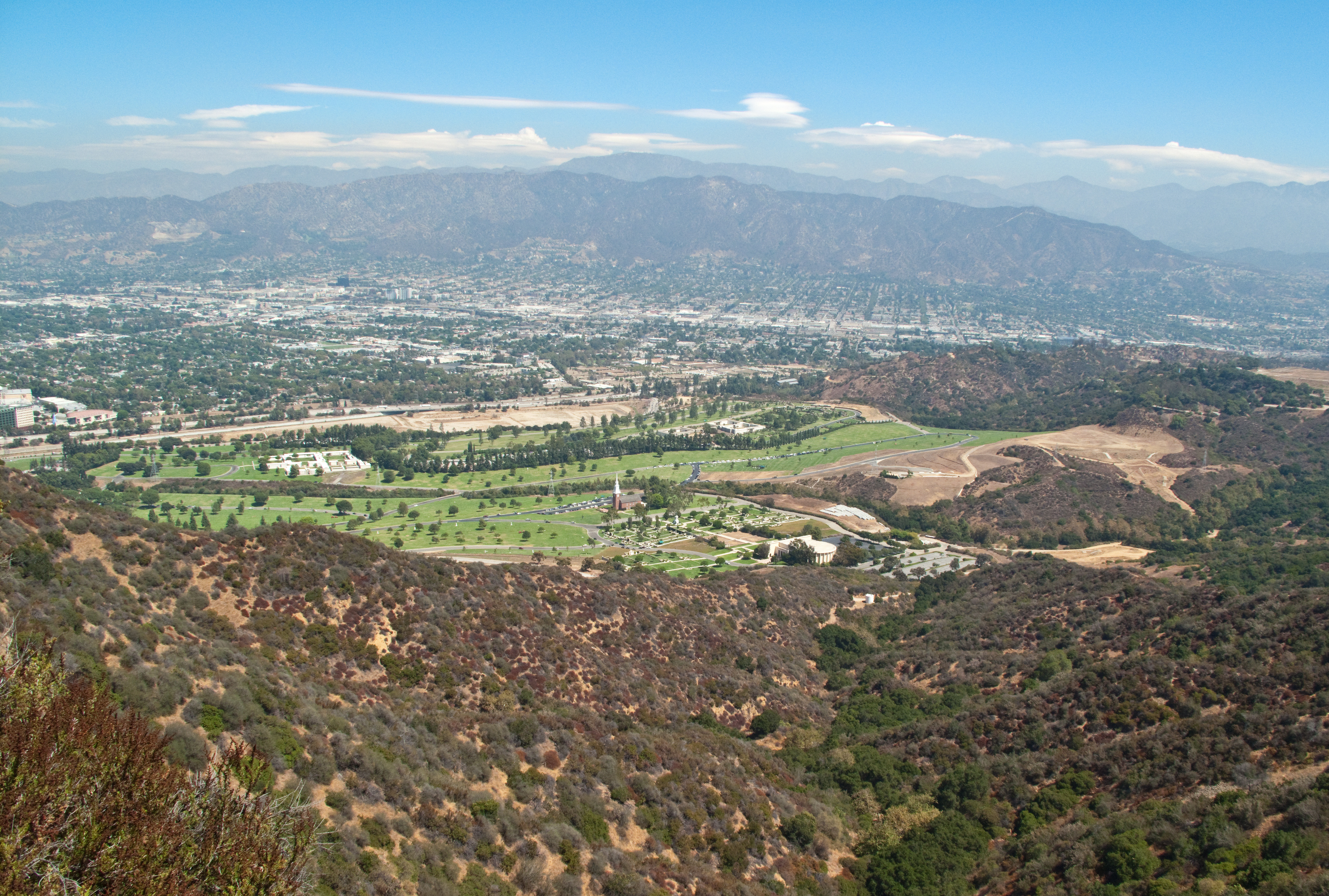 View northeast from Cahuenga Peak in Griffith Park, the green area is Hollywood Hills Forest Lawn Memorial Park. Beyond it are the cities of Burbank and Glendale and the Verdugo Mountains, and in the distance the San Gabriel Mountains.